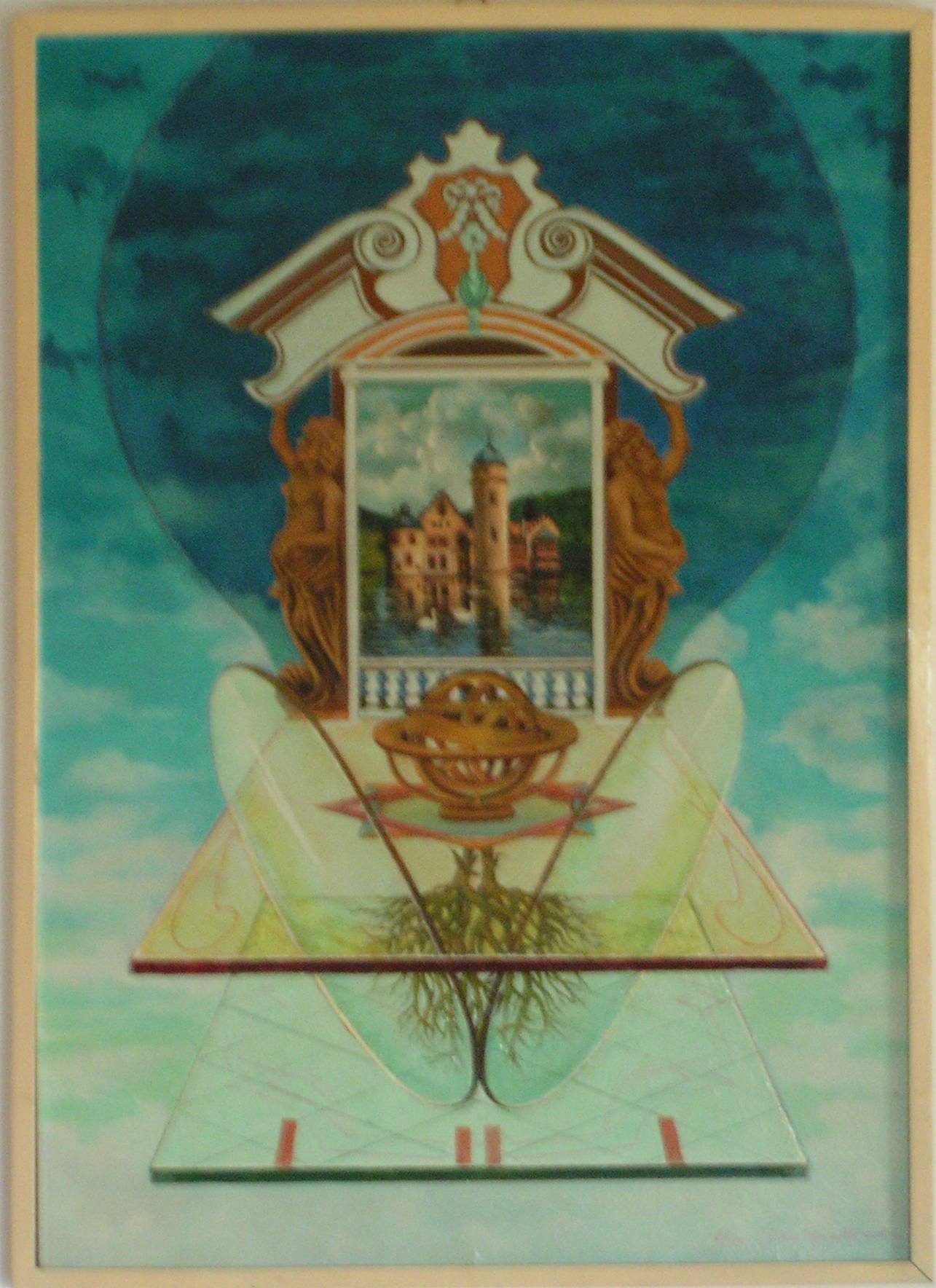 Work of the Italian painter William Girometti, untitled (Mespelbrunn Castle), 1988, oil on wood, cm. 53x75 - owned by his daughter.